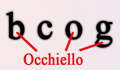 Fonts